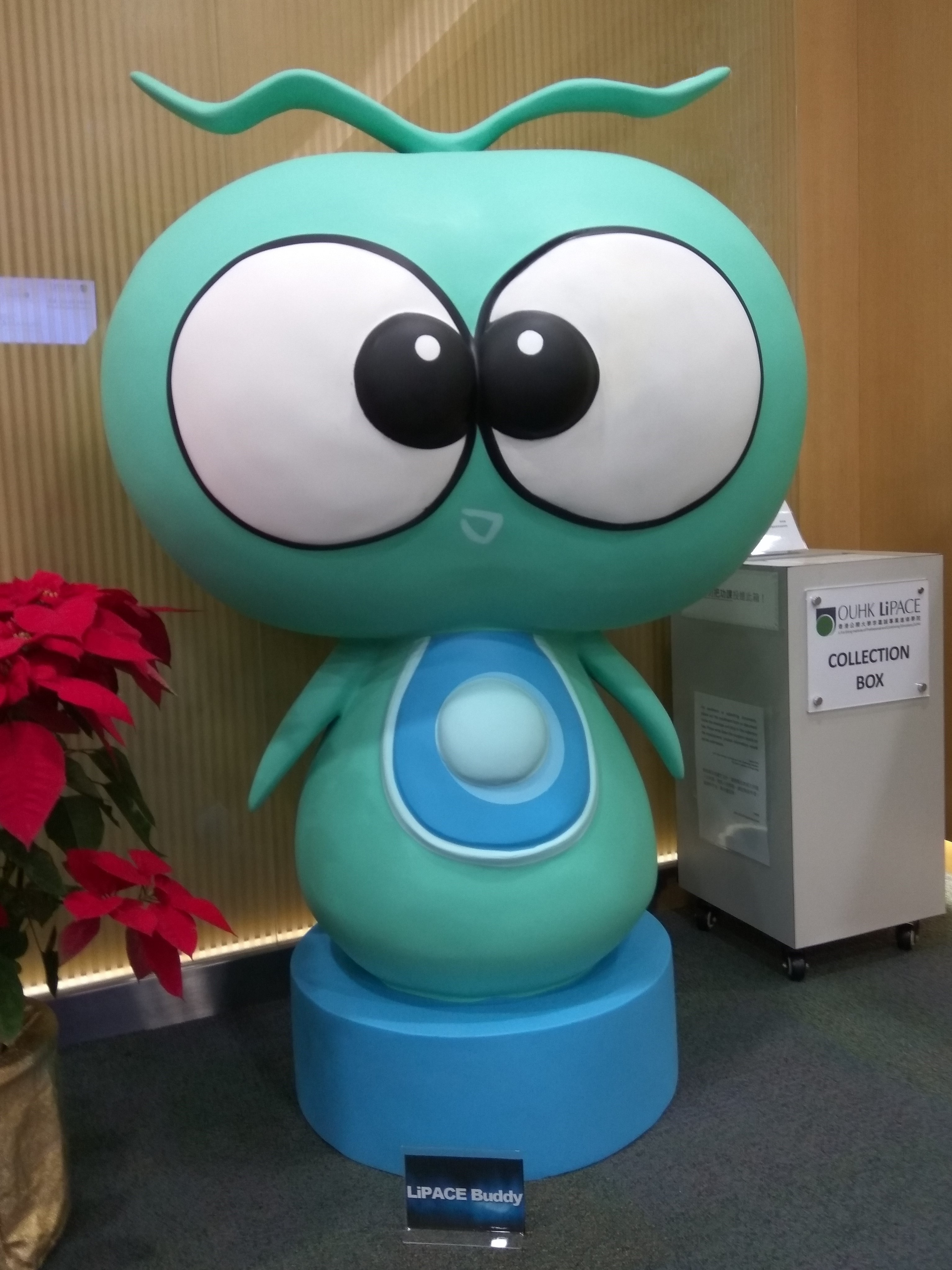 LiPACE Buddy